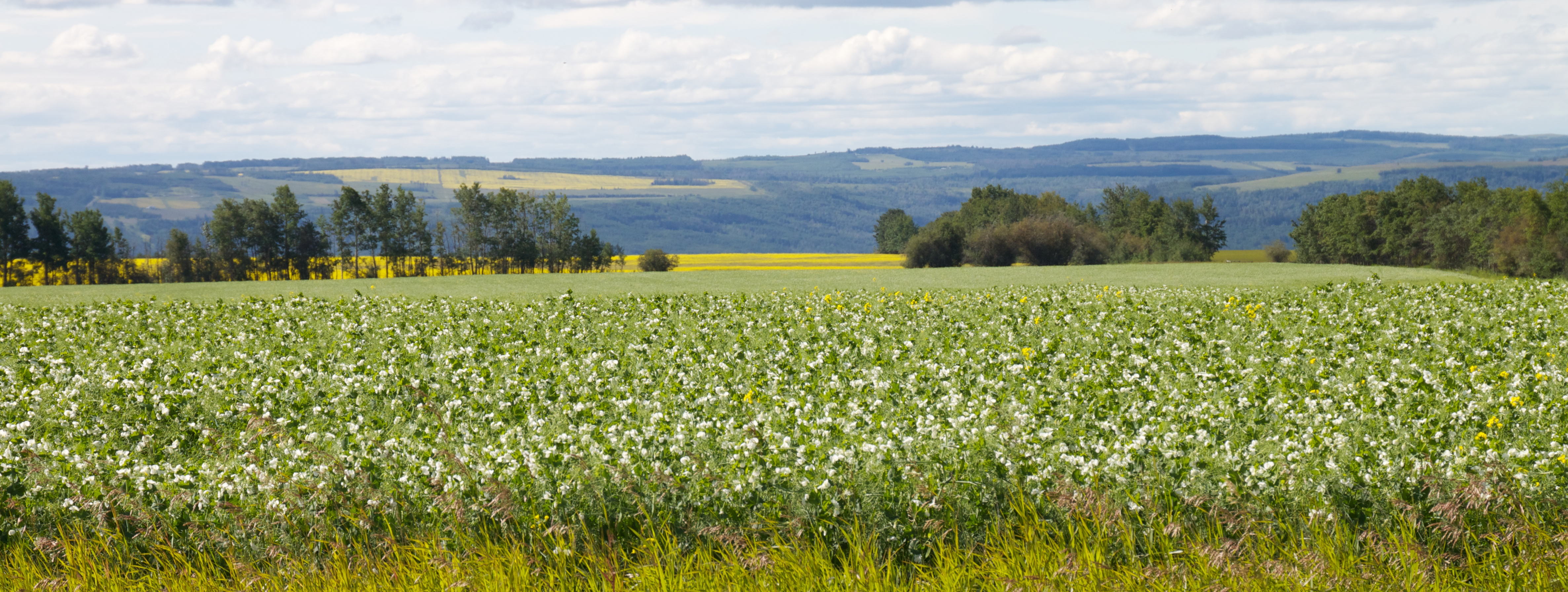 Peas